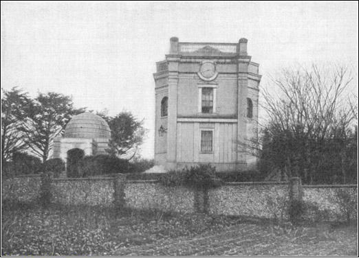 Tomb and synagogue of Moses Montefiore. Ramsgate, Kent, England.